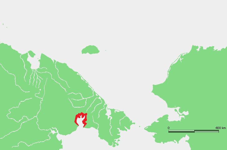 location map